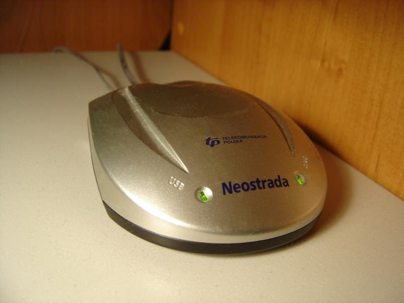 A photograph of the Alcatel SpeedTouch 330 modem, taken by me. This is one of the "silver" modems, but contains extra logos of the ISP and the service name. It was purchased in June/July 2004. As far as I know, the newer modems (sold by TP S.A. in Poland) feature a different logo and are missing the "Neostrada" label.